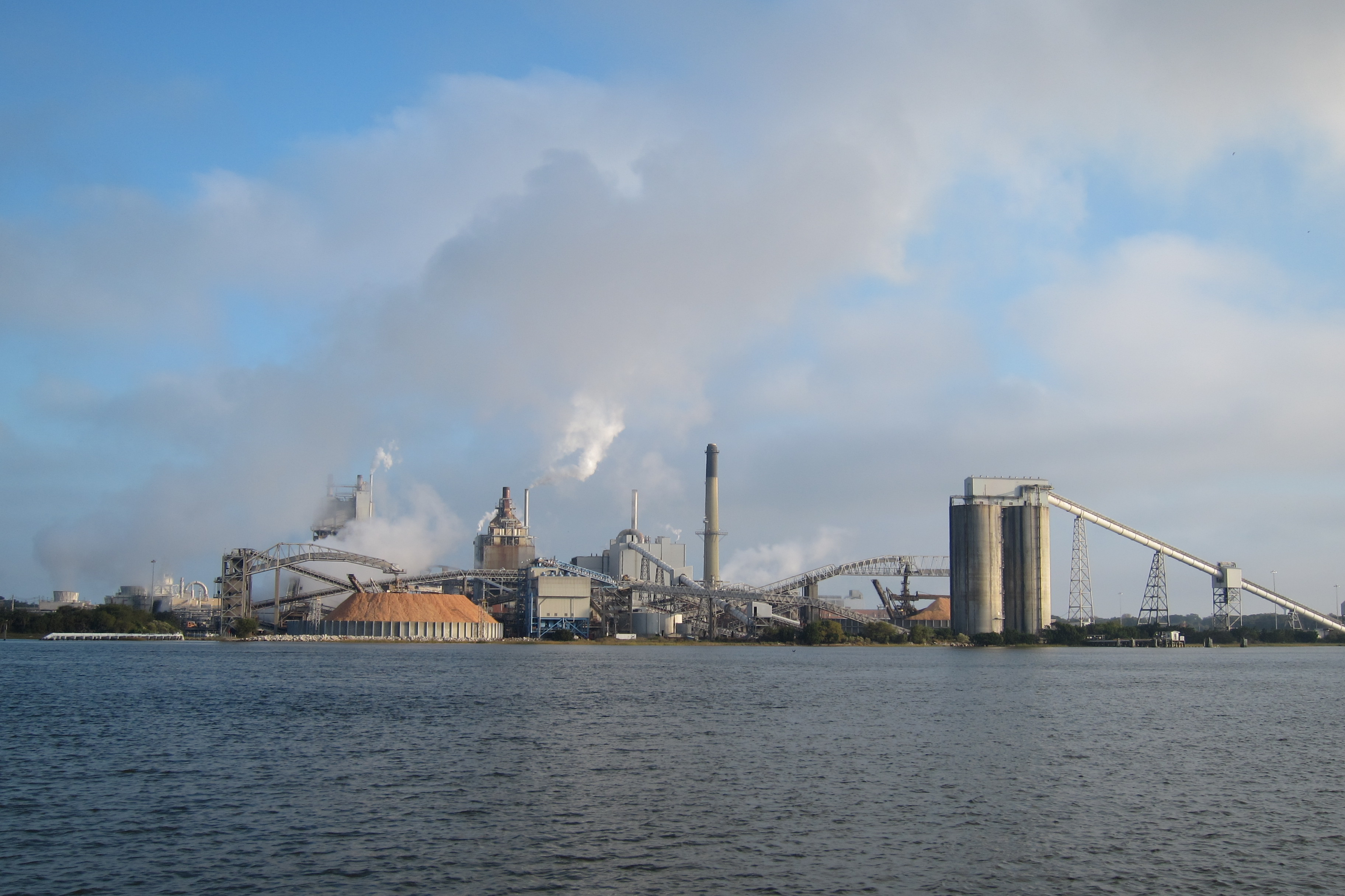 View of the RockTenn paper factory in Fernandina Beach, Florida, USA